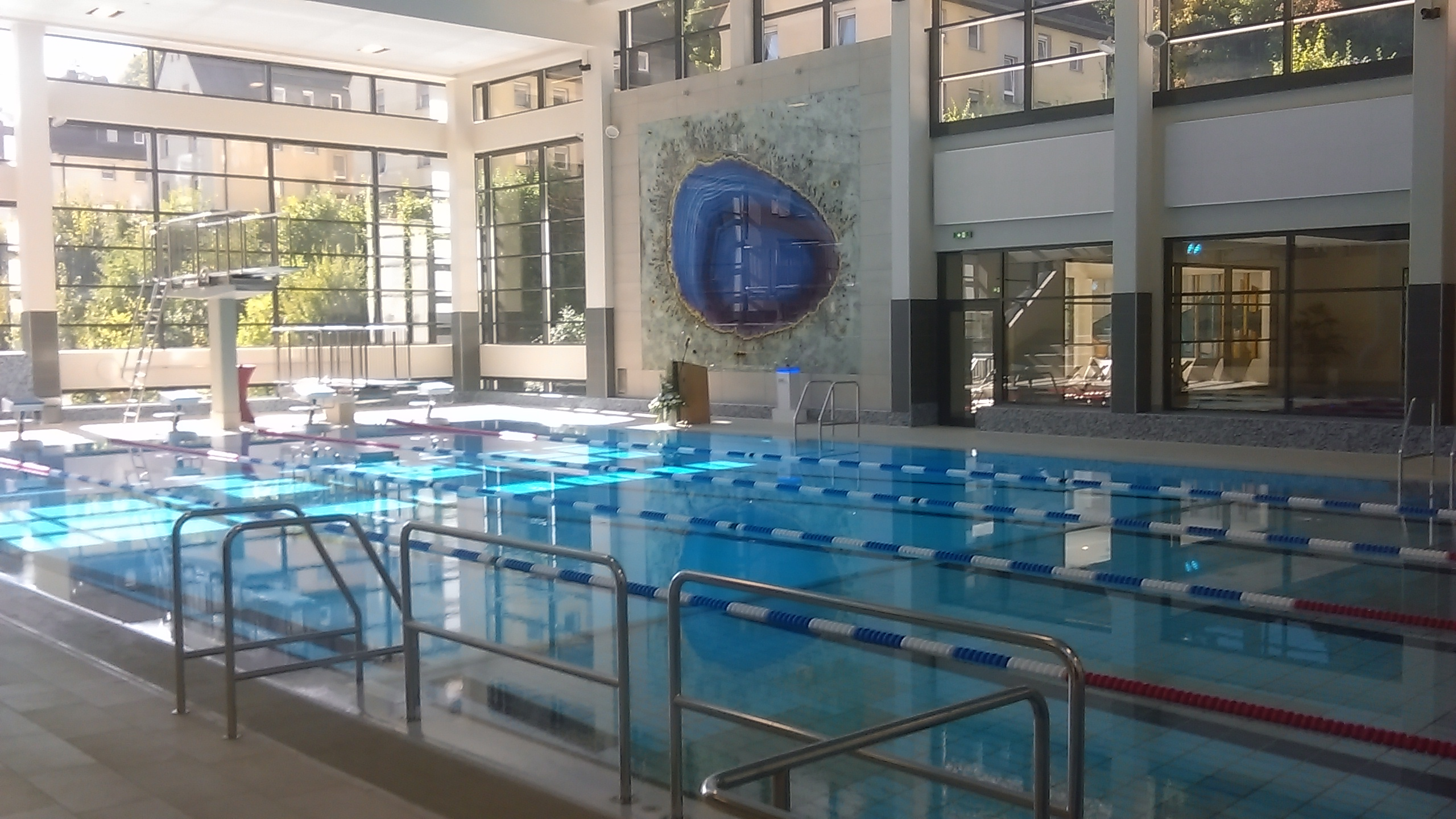 Indoor swimming pool Idar-Oberstein 2016